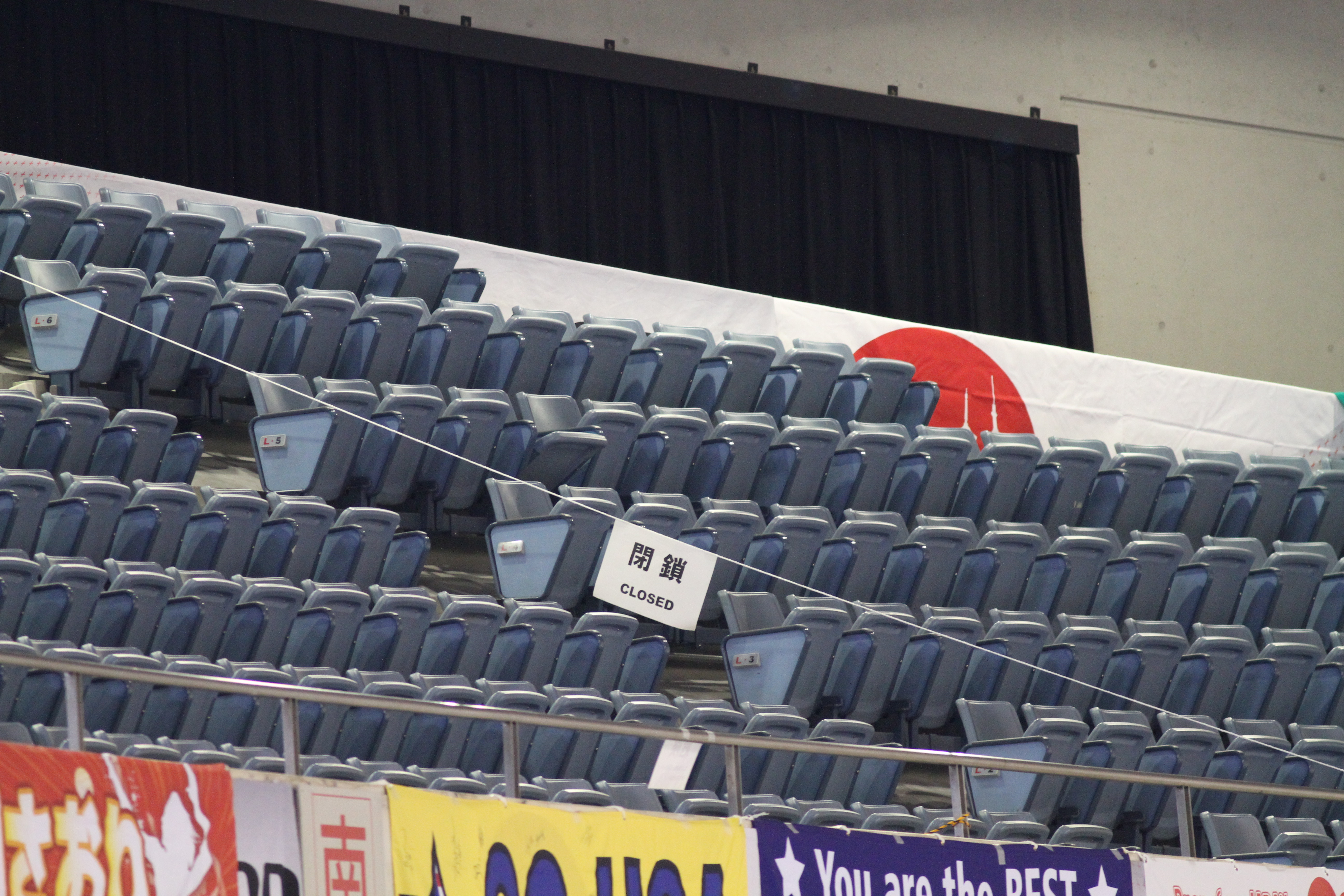 Closed-off seating at the Yoyogi National Gymnasium in Tokyo, Japan